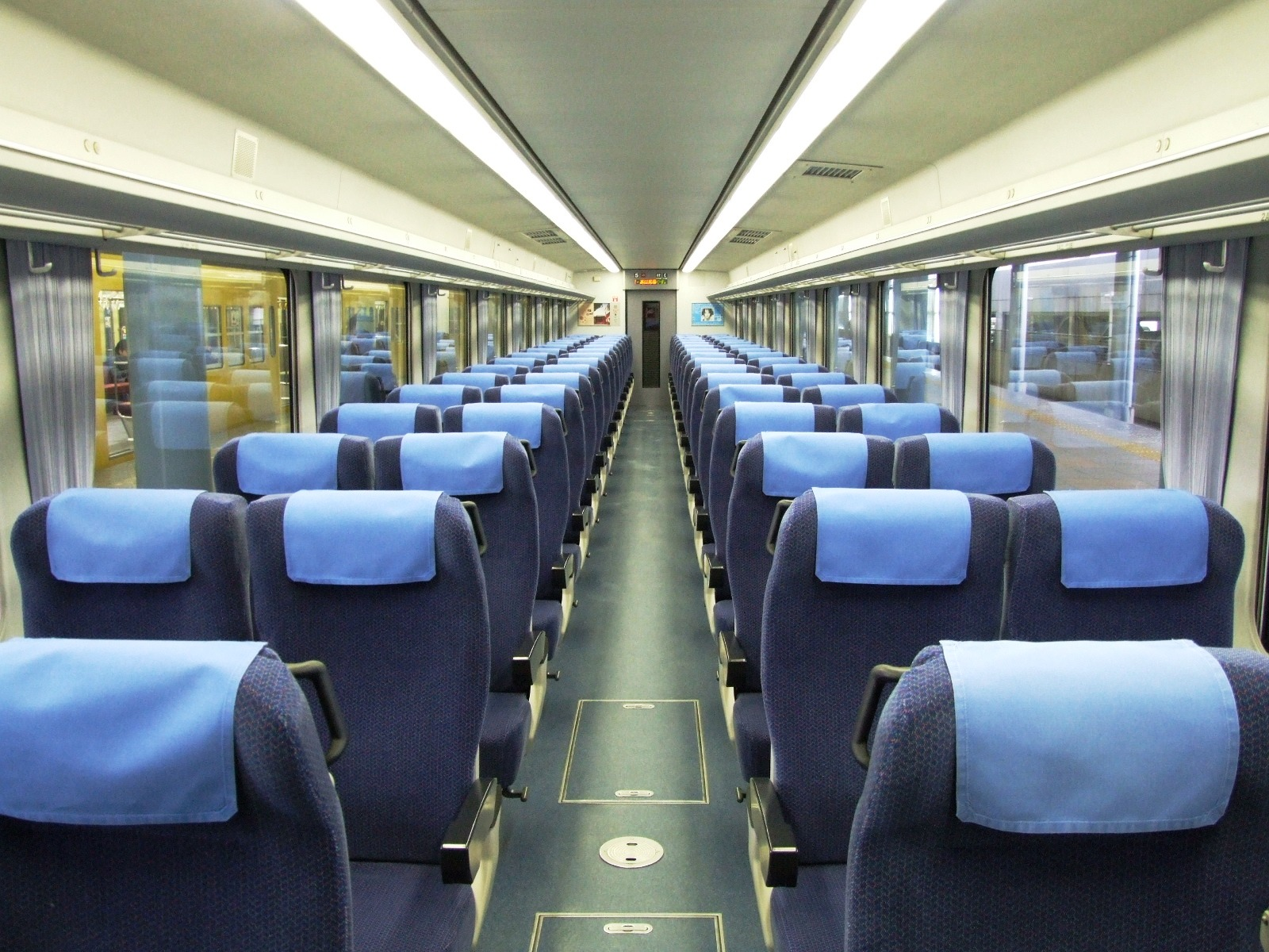 Inside of Series 10000,SEIBU Railway,Japan